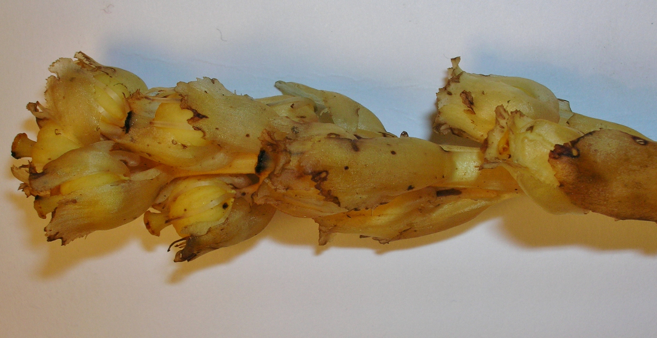 Maturing carpels of Yellow bird's nest or Dutchman's pipe